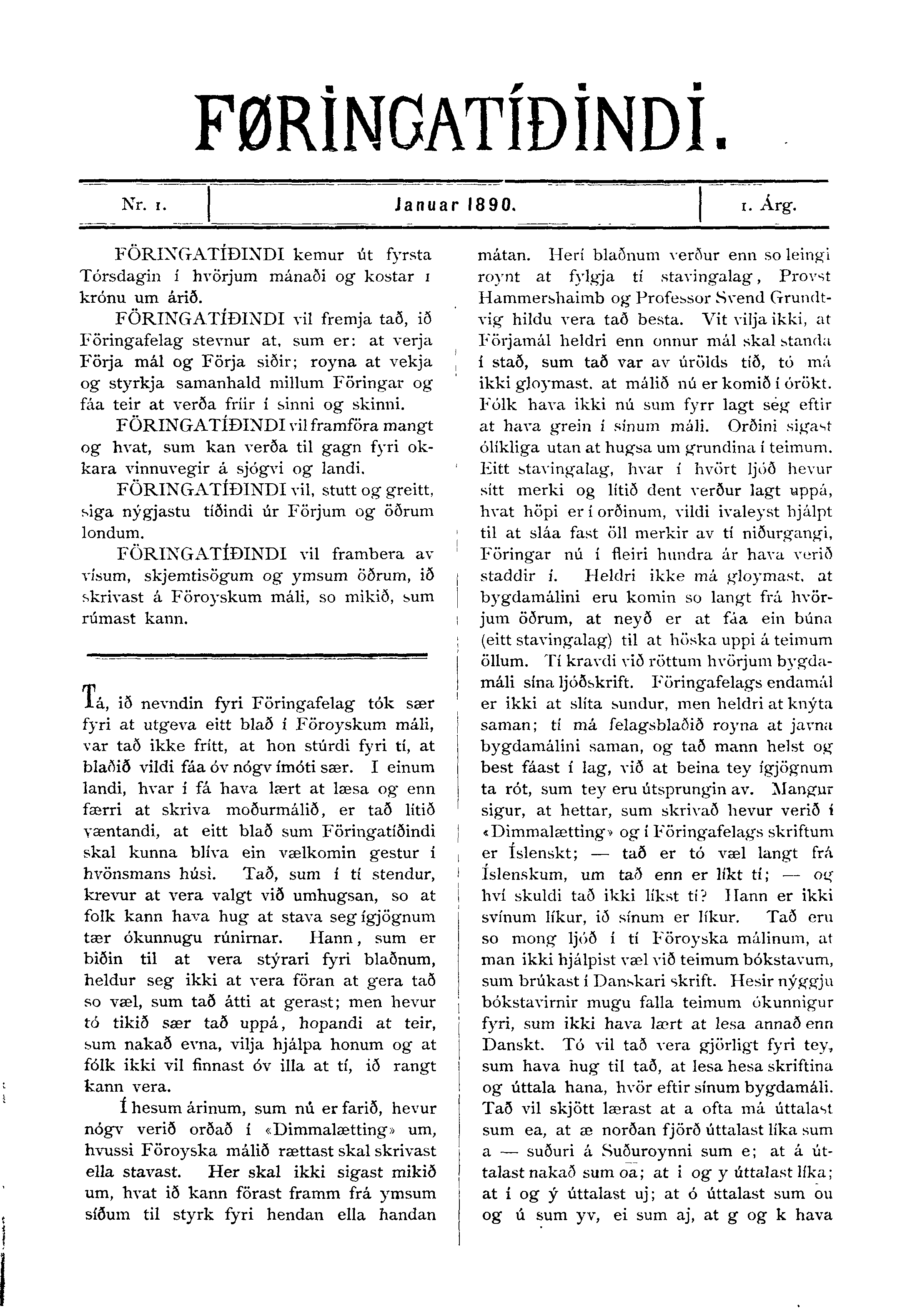 First edition of Føringatíðindi (1890).